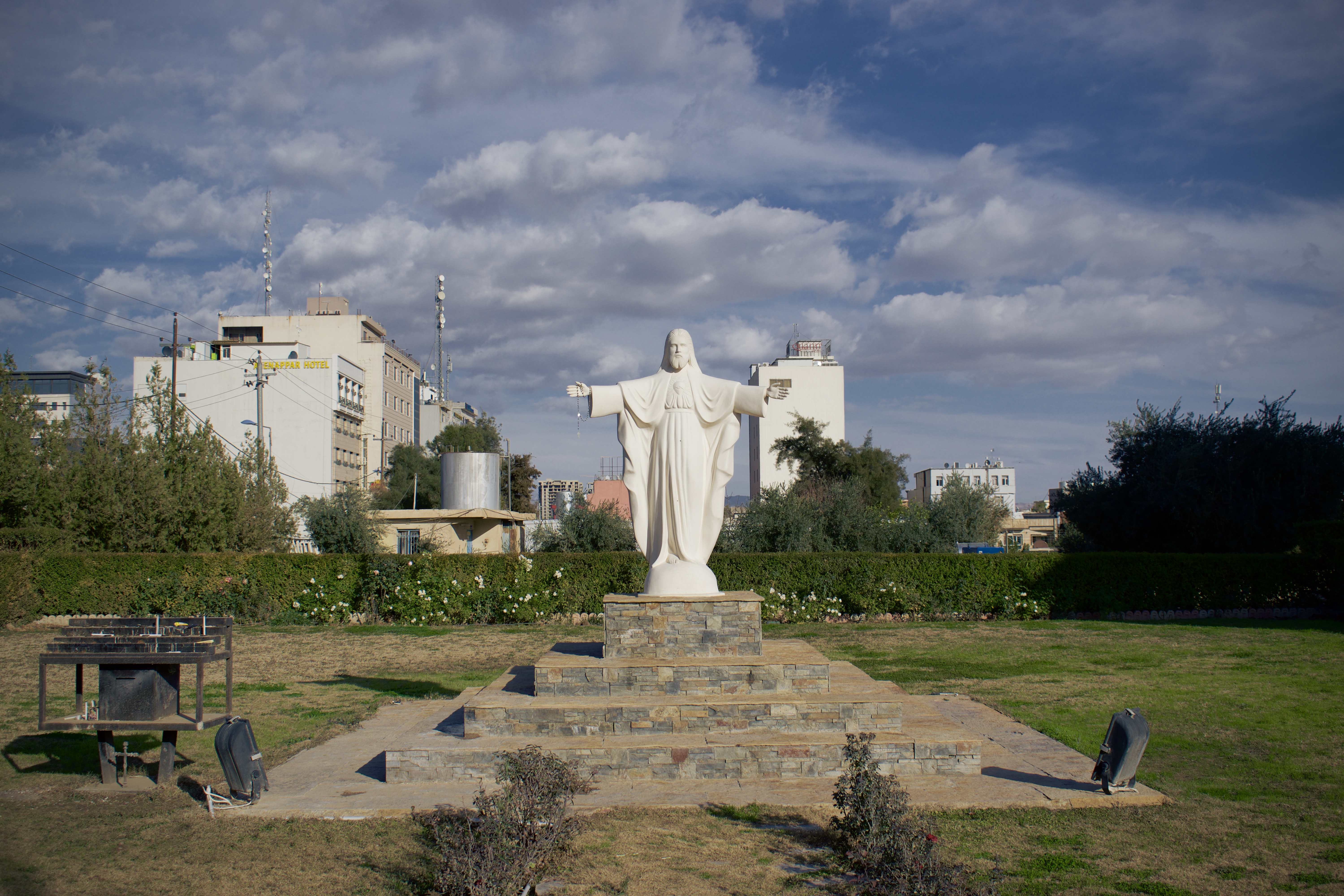 Place for prayer in Ankawa, the Christian village (now neighbourhood) at the outskirts of Erbil